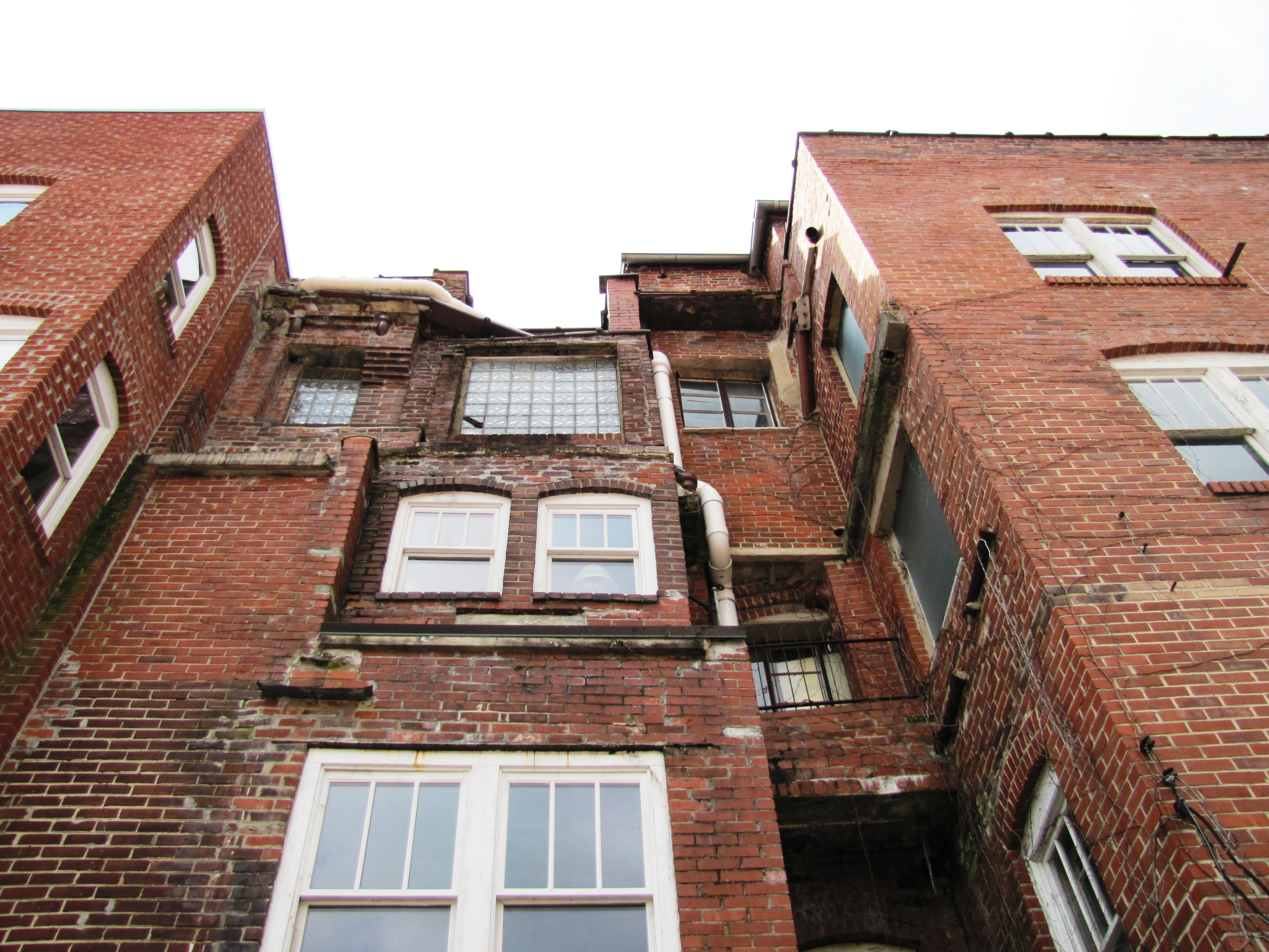 The east wall of the Dr. Fred Stone, Sr. Hospital in Sparta, Tennessee, USA. The different brick types indicate the building's piecemeal construction over a period of several years.